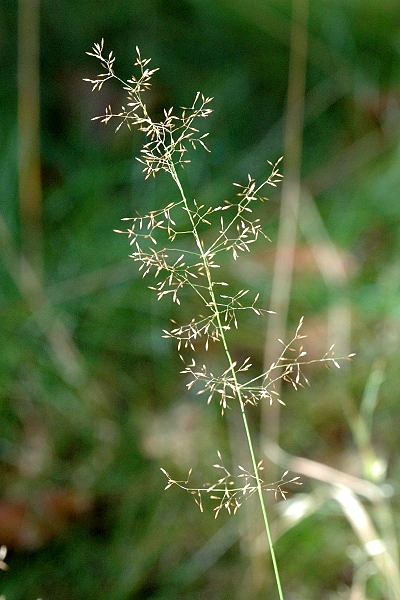 Picture taken in Commanster, Belgian High Ardennes . Species: Agrostis canina